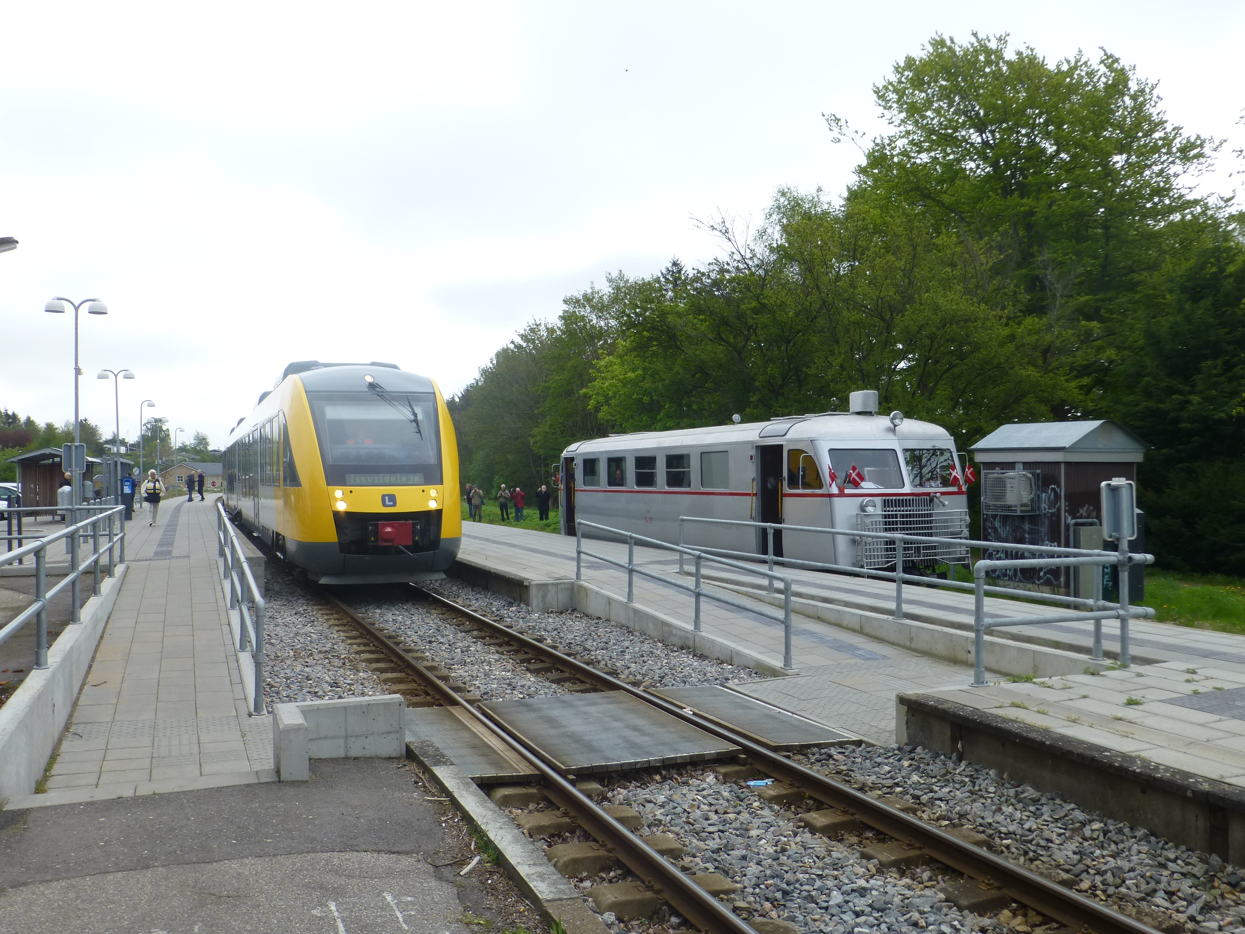 The diesel railcar LNJ SM 13 at Vejby Station on Gribskovbanen in Denmark during a special trip with railway entusiasts. At the left a regular train of Gribskovbanen.